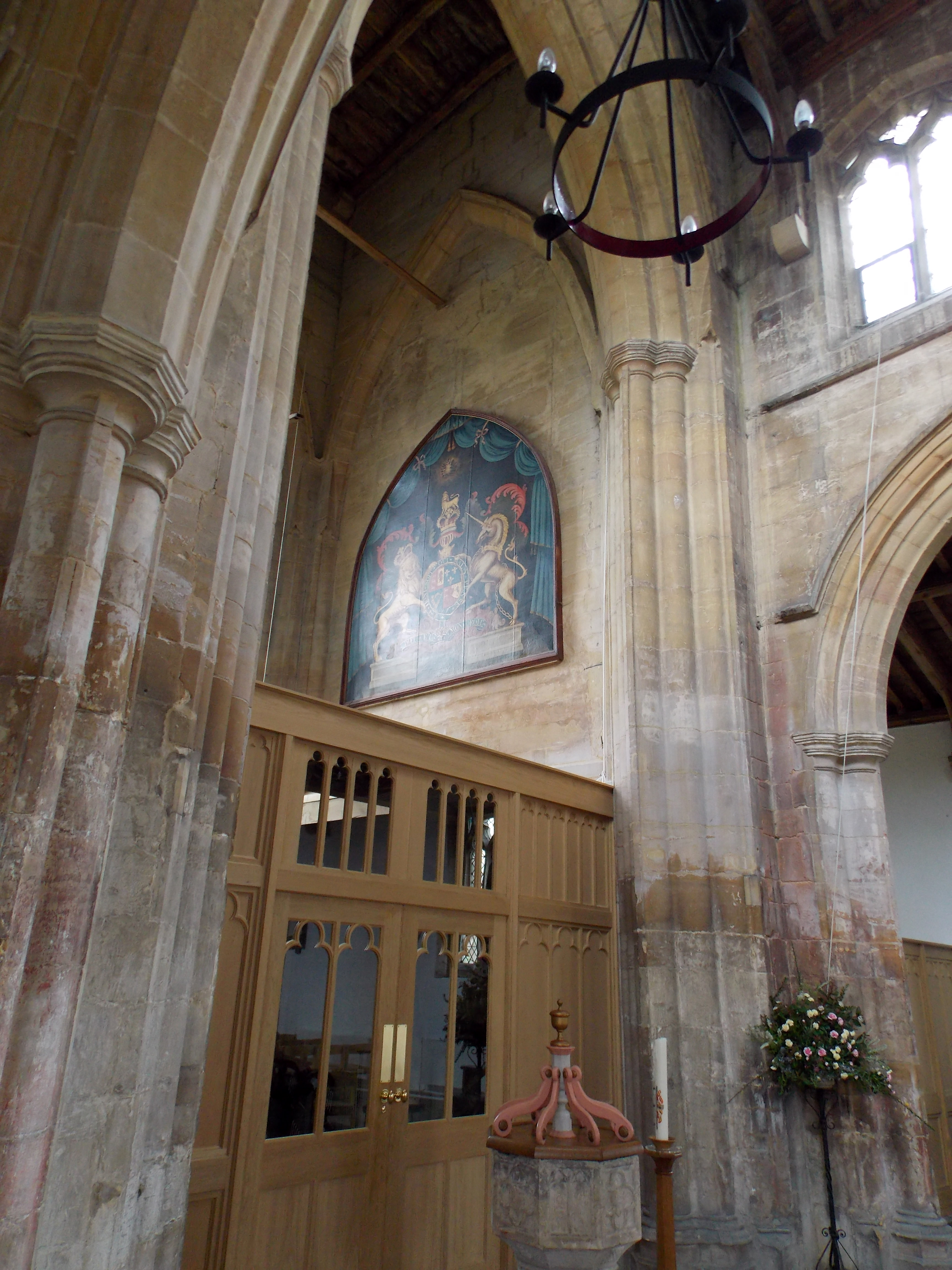 Aslackby St James, interior - Tower north wall with coat of arms